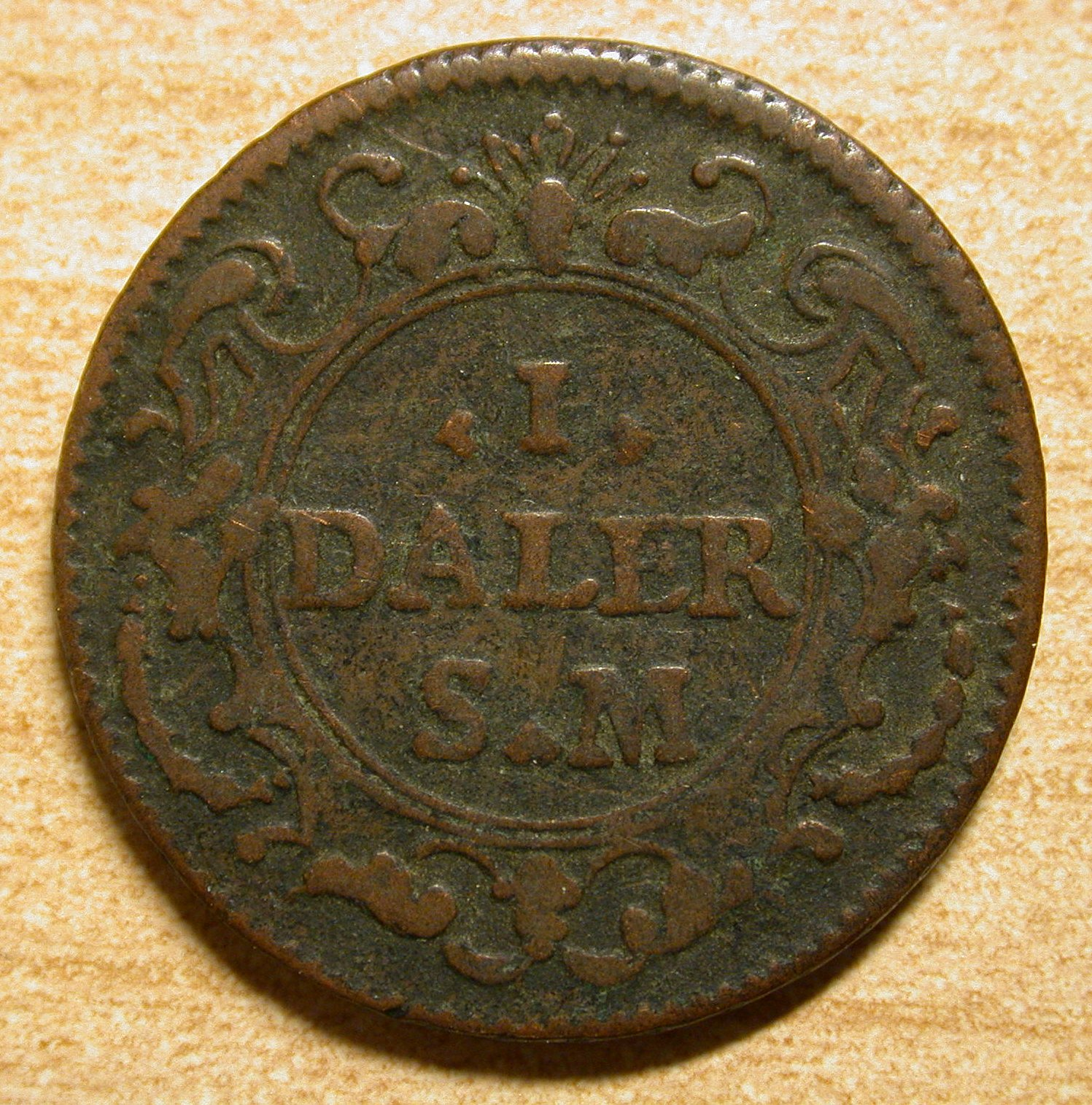 Coin token, nominally 1 daler silvermynt 1719 (hoppet). A Swedish copper coin.